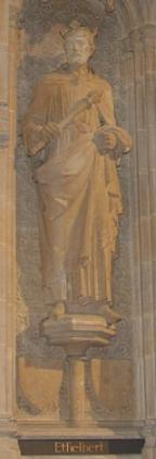 Statue of Ethelbert of Kent. Interior of Rochester Cathedral. I took this picture May 2006.